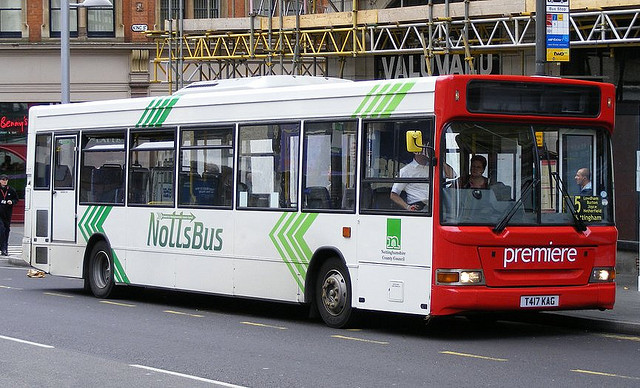 Premiere Travel, Nottingham fleet expansion in September 2009 involved the purchase of many second hand vehicles . Here is an example of a former vehicle that operated in London T417KAG in the new Notts Bus livery which is a Framework agreement for Bus Services with Nottinghamshire County Council